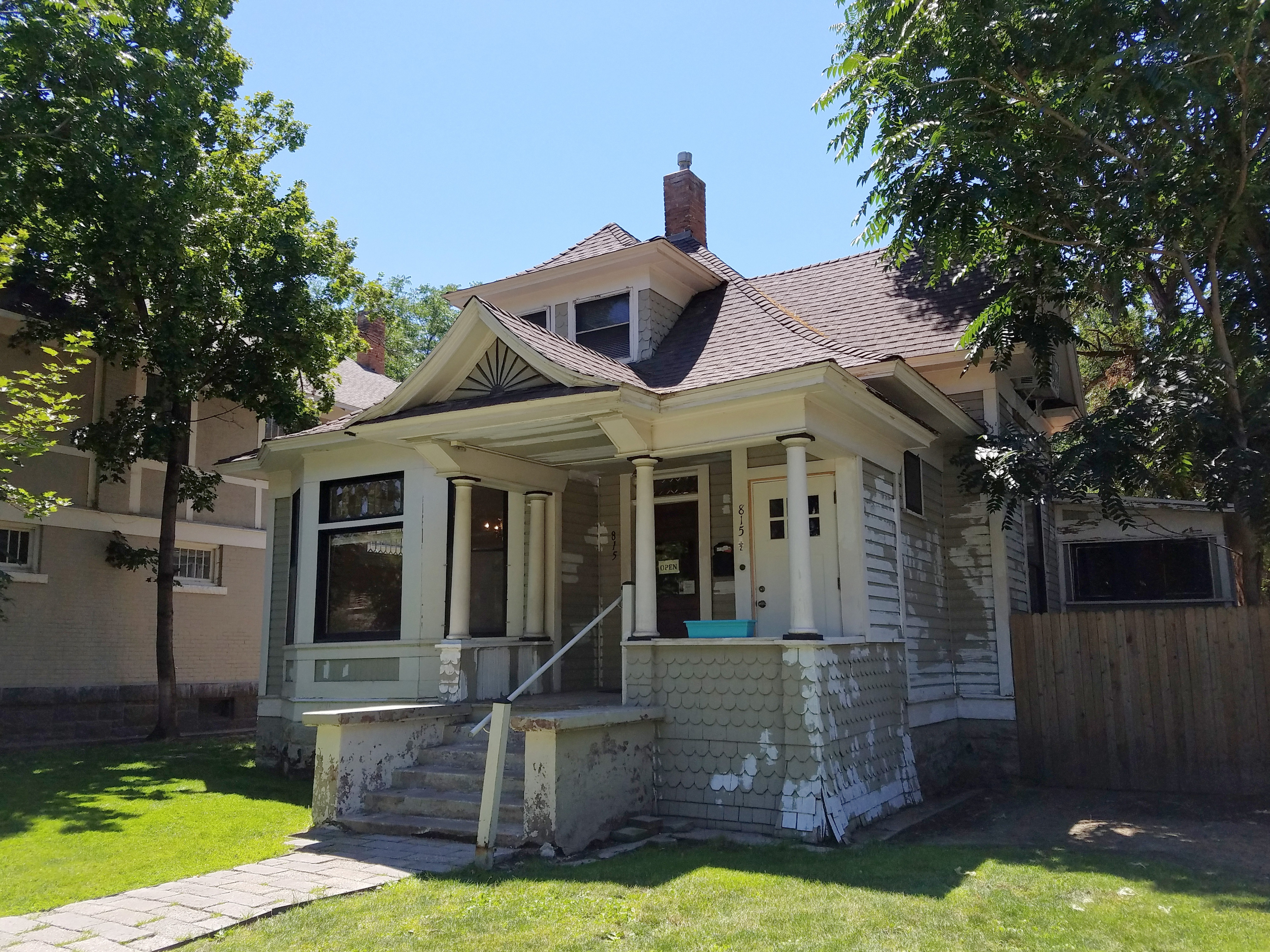 The Axel M. Nixon house (1903) in Boise, Idaho, was designed by John E. Tourtellotte and is listed on the National Register of Historic Places. The house is also part of the Fort Street Historic District.